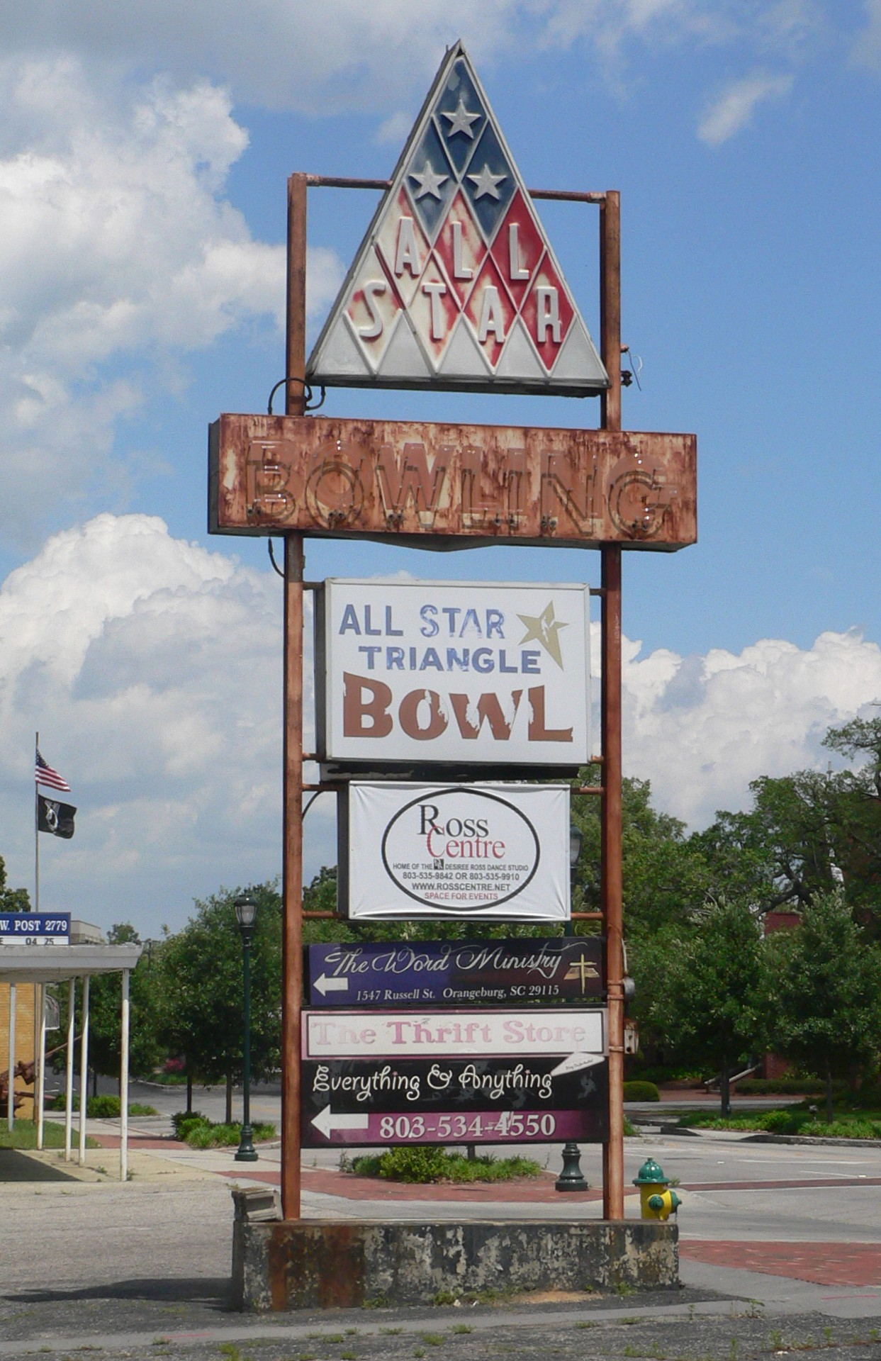 All-Star Triangle Bowling Alley, on northwest side of Russell Street between Centre and Lowman Streets in Orangeburg, South Carolina: sign on Russell, seen from the southwest.